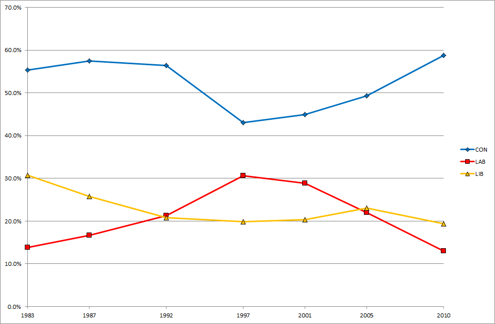 Electoral results by party in UK Parliament constituency of Witney